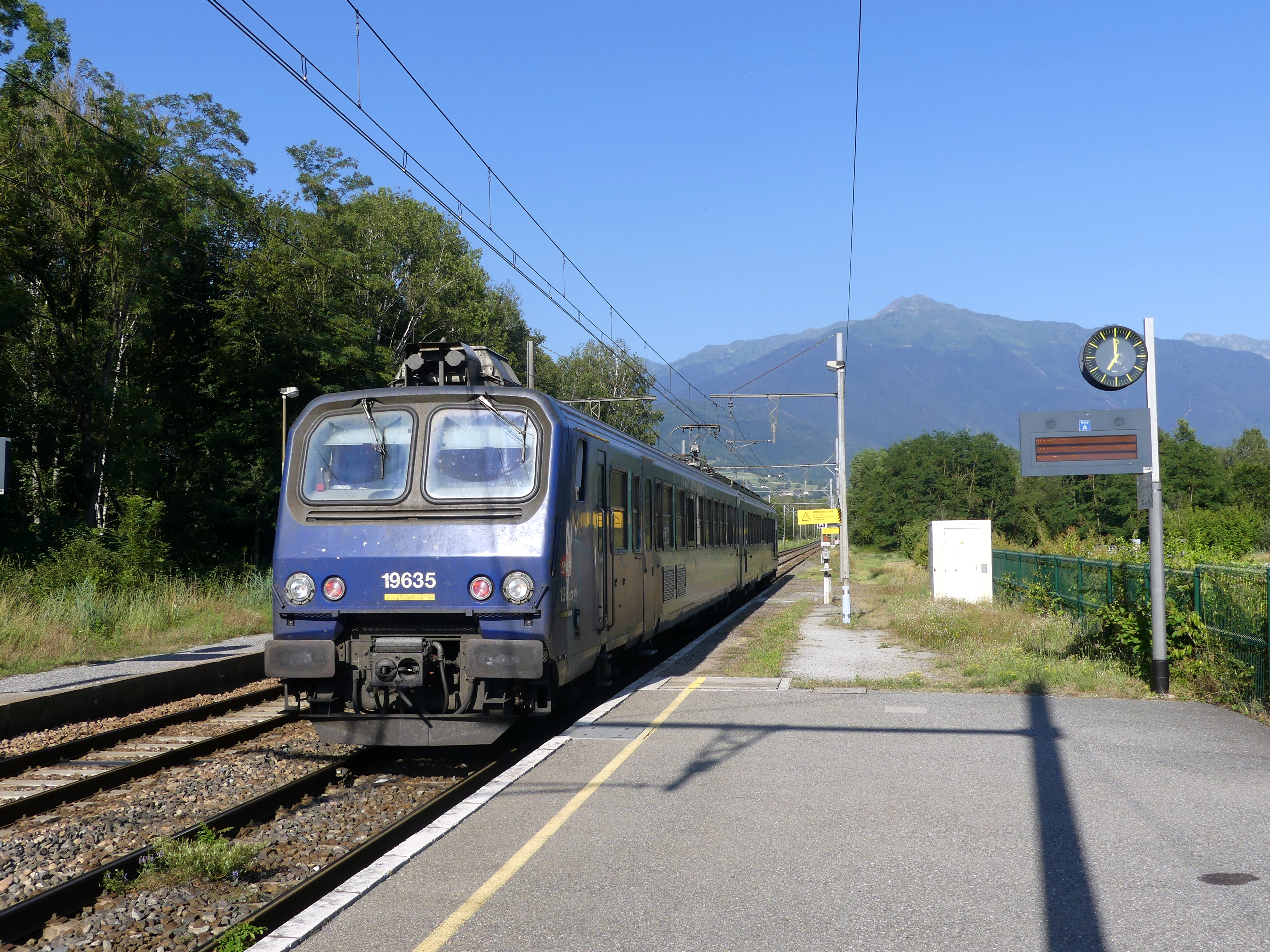 Sight, in the early evening, of a French SNCF Class Z 9600 on the regional relation from Saint-Jean-de-Maurienne to Chambéry, at Chamousset station, in Savoie.